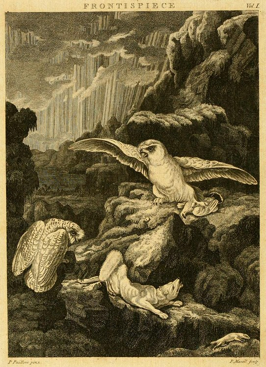 Frontispiece to Volume 1 of Thomas Pennant's Arctic Zoology, painted by Peter Paillou (pinx.), engraved by Peter Mazell (sculp.). Published by Henry Hughs, London 1784. "Frontispiece, a winter scene in Lapland, with Aurora Borealis: the Arctic Fox, No. 10: Ermine, No. 26: Snowy Owl, No. 121: and White Grous, No. 183."